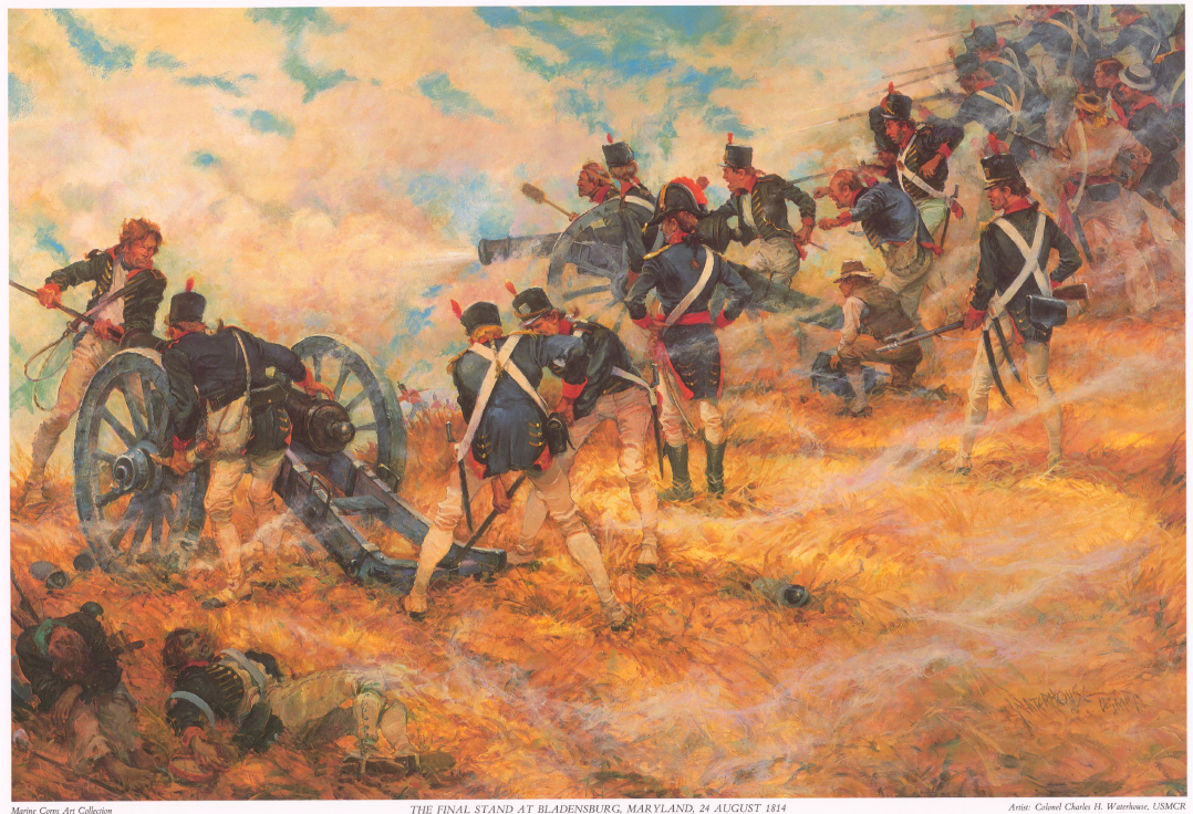 Colonel Charles Waterhouse's depiction of U.S. Marines manning their guns at Bladensburg, Maryland in defense of Washington D.C. against the British on 24 August 1814.